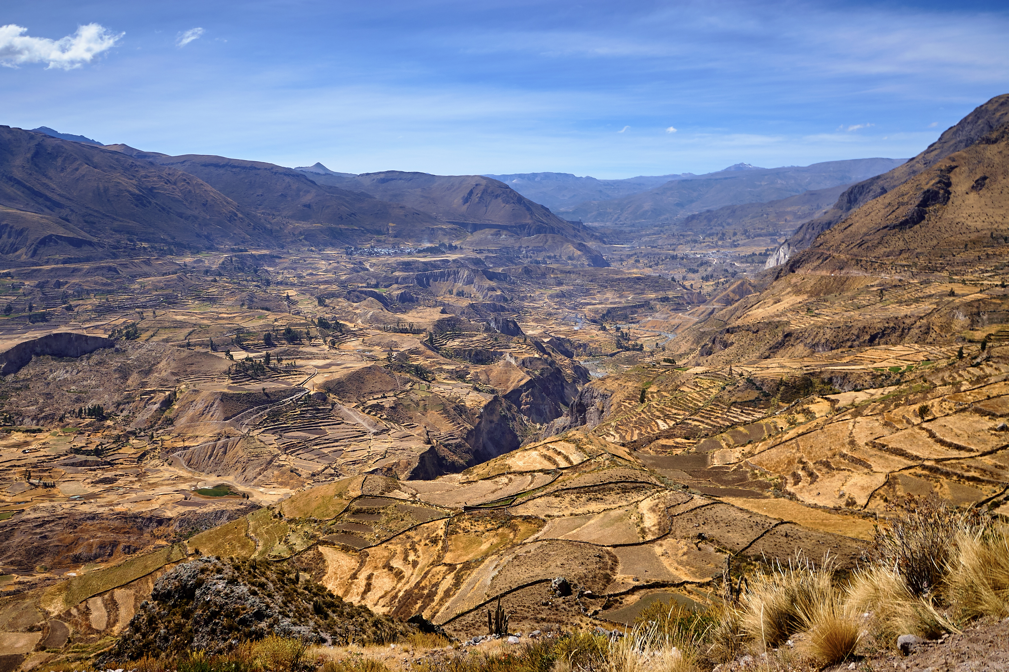 Valley of Colca River, Peru